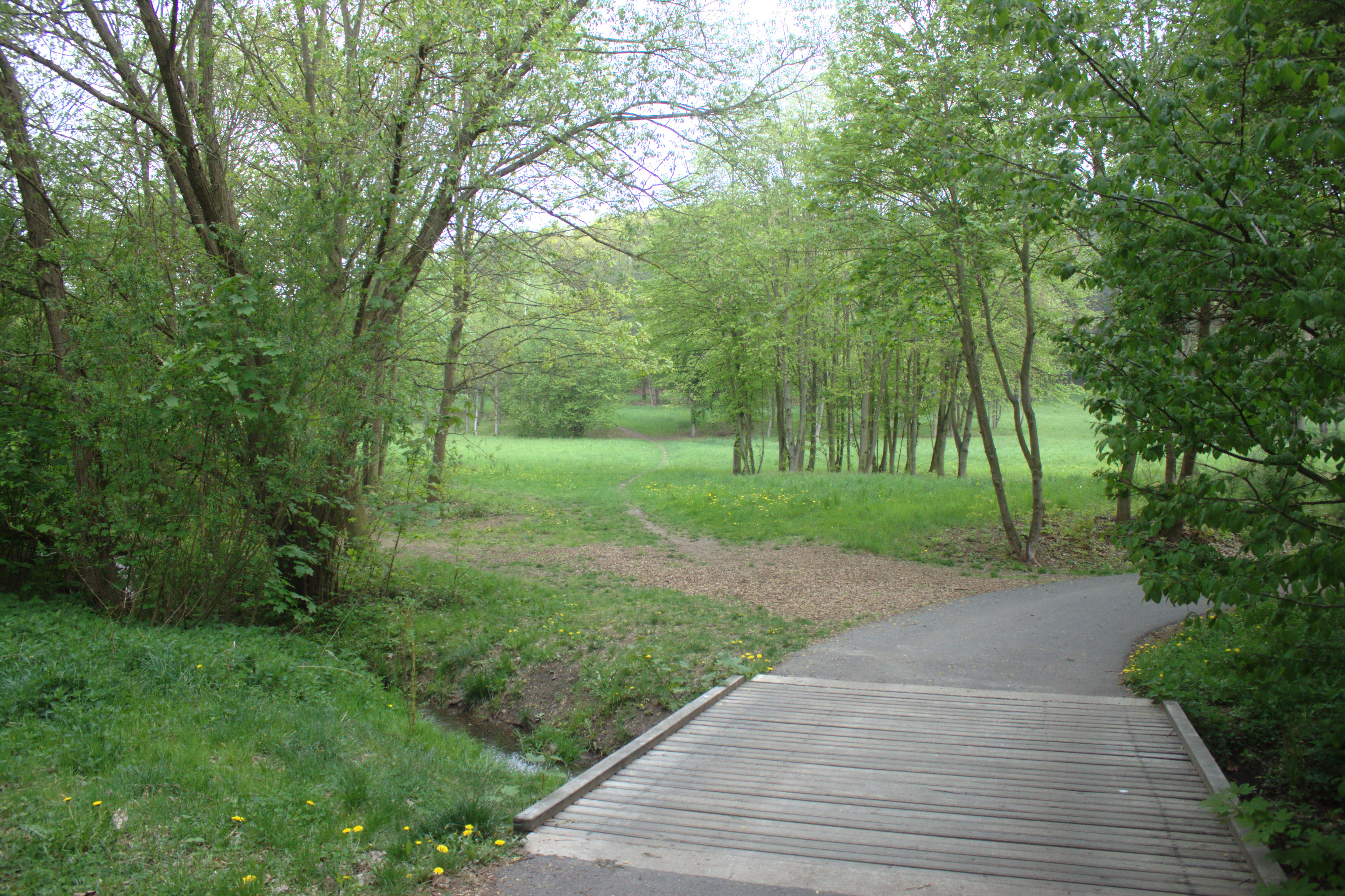 A bridge over a creek in Prague-Divoká Šárka